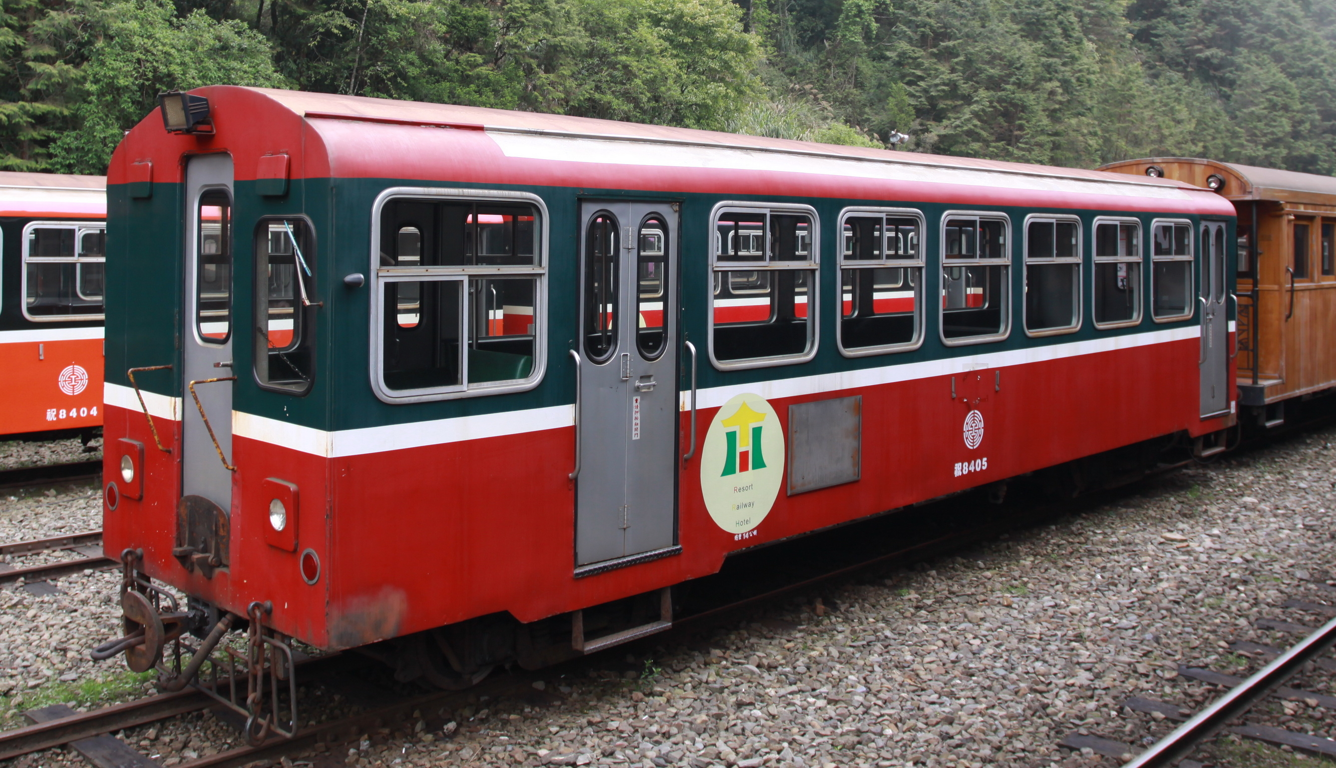 Alishan Forest Railway Jhushan Line Passenger car 8405